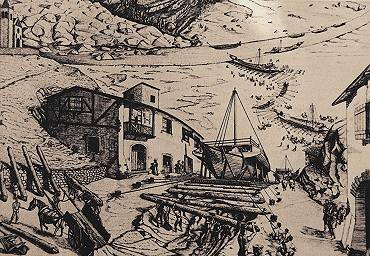 Galeas per Montes - First step, the path from the Adige river to the Loppio Lake